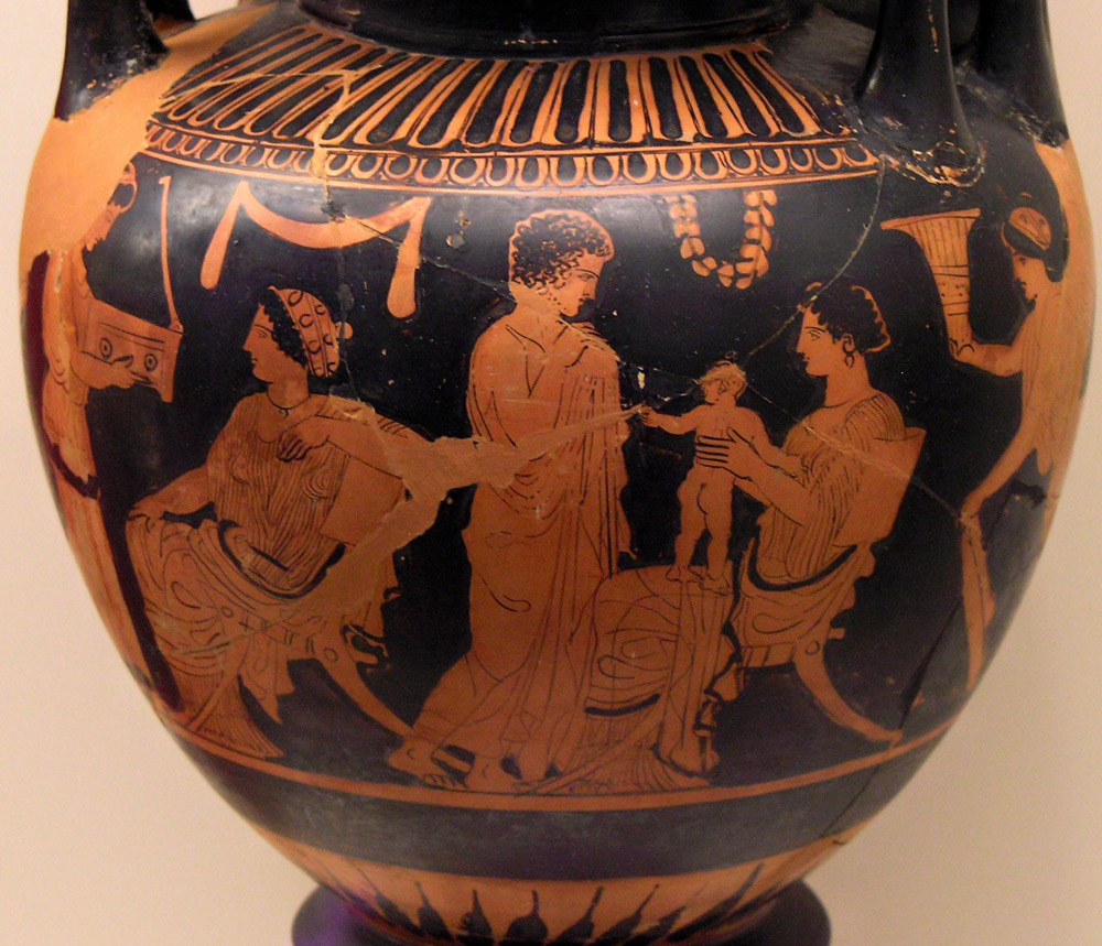 Familial scene in the gynaeceum. Attic red-figure lebes gamikos after the manner of the Ariadne Painter, ca. 430 BC. National Archaeological Museum in Athens, 1250.